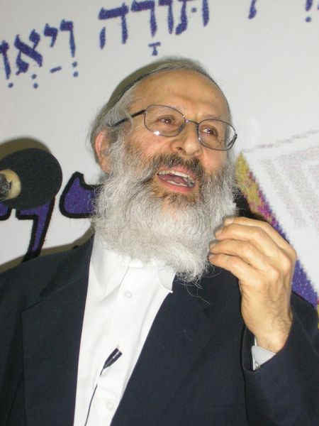 Rabbi Shlomo Chaim haKohen Aviner is the Rosh Yeshiva of the Ateret Cohanim Yeshiva